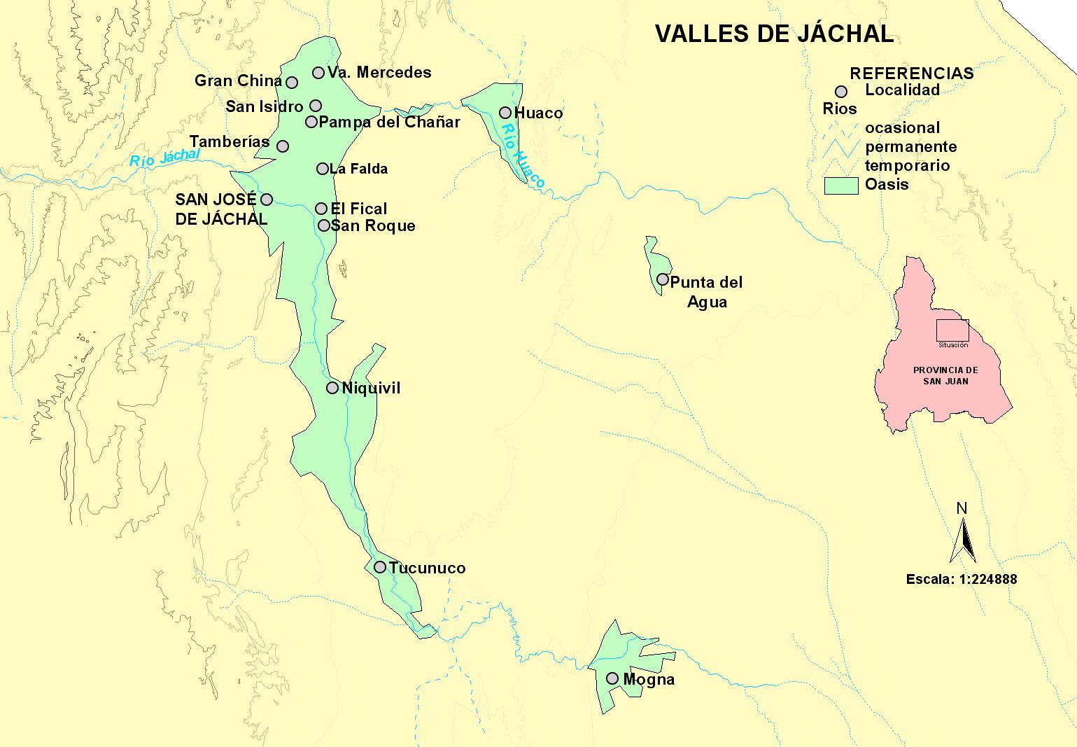 Maps of Jachal Valley, San Juan Province, Argentina